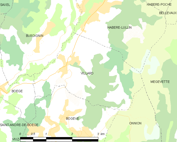 Map of French municipality Villard